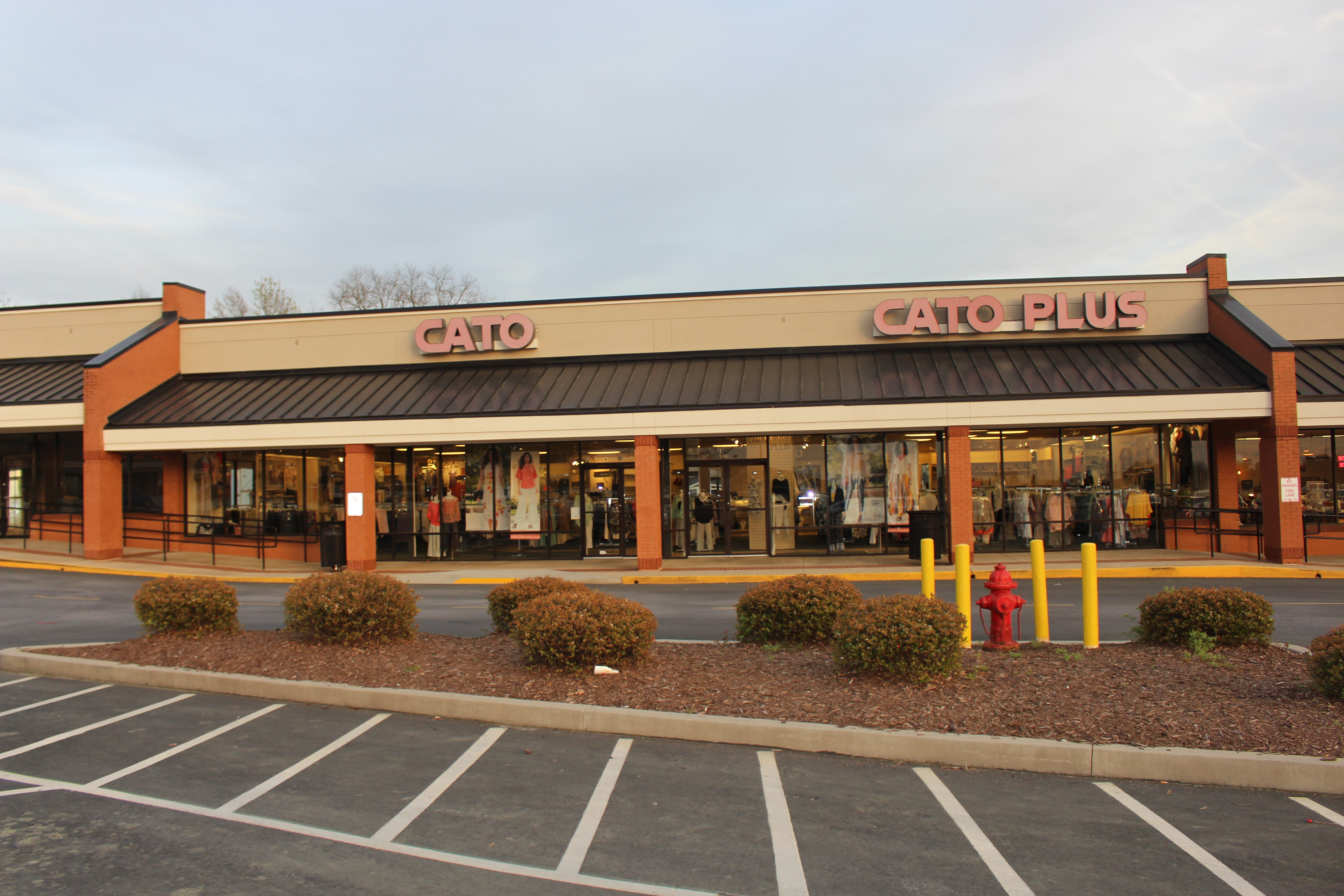 Spalding Village, Griffin, Georgia